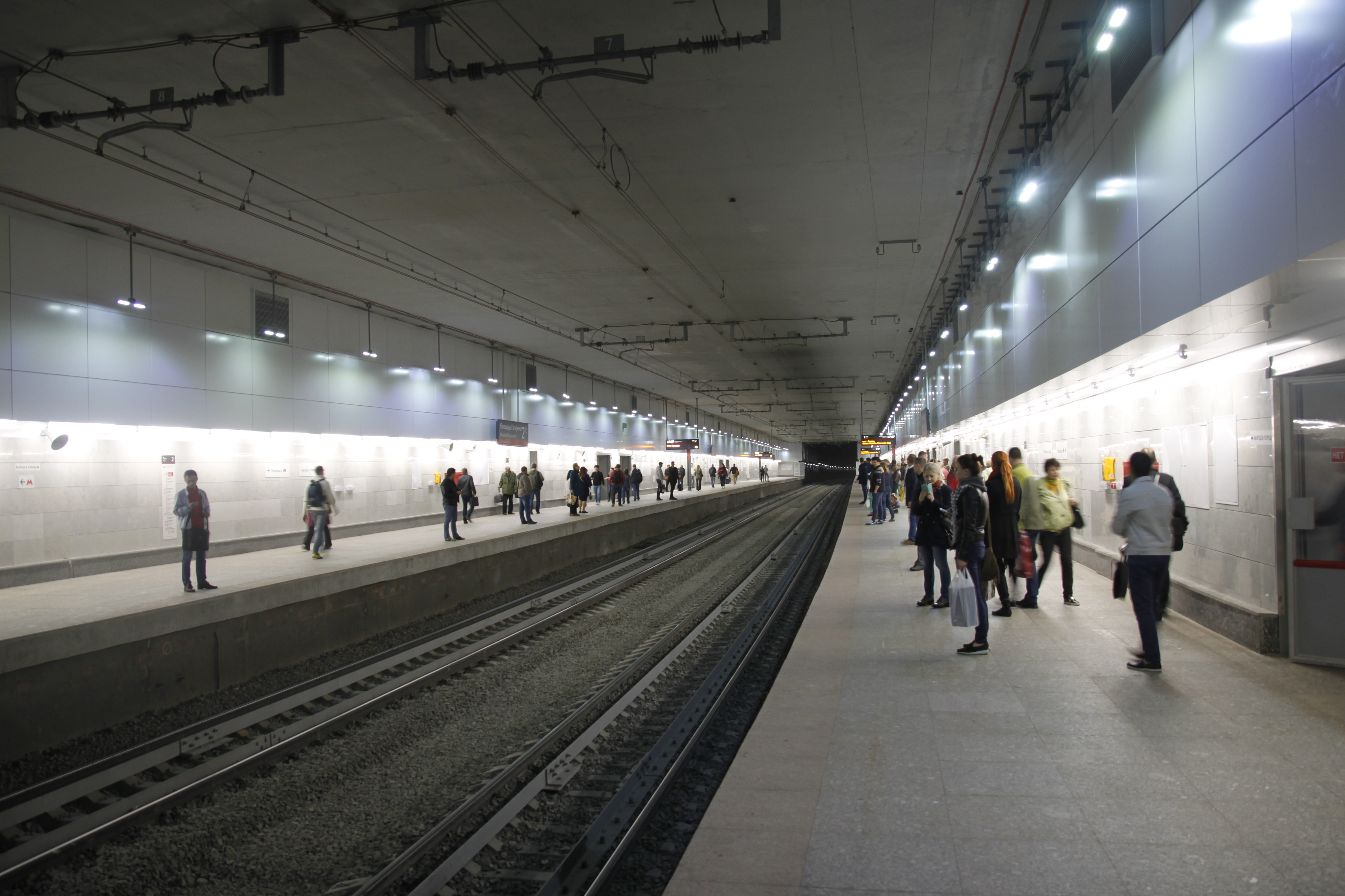 Ploschad Gagarina MCC station